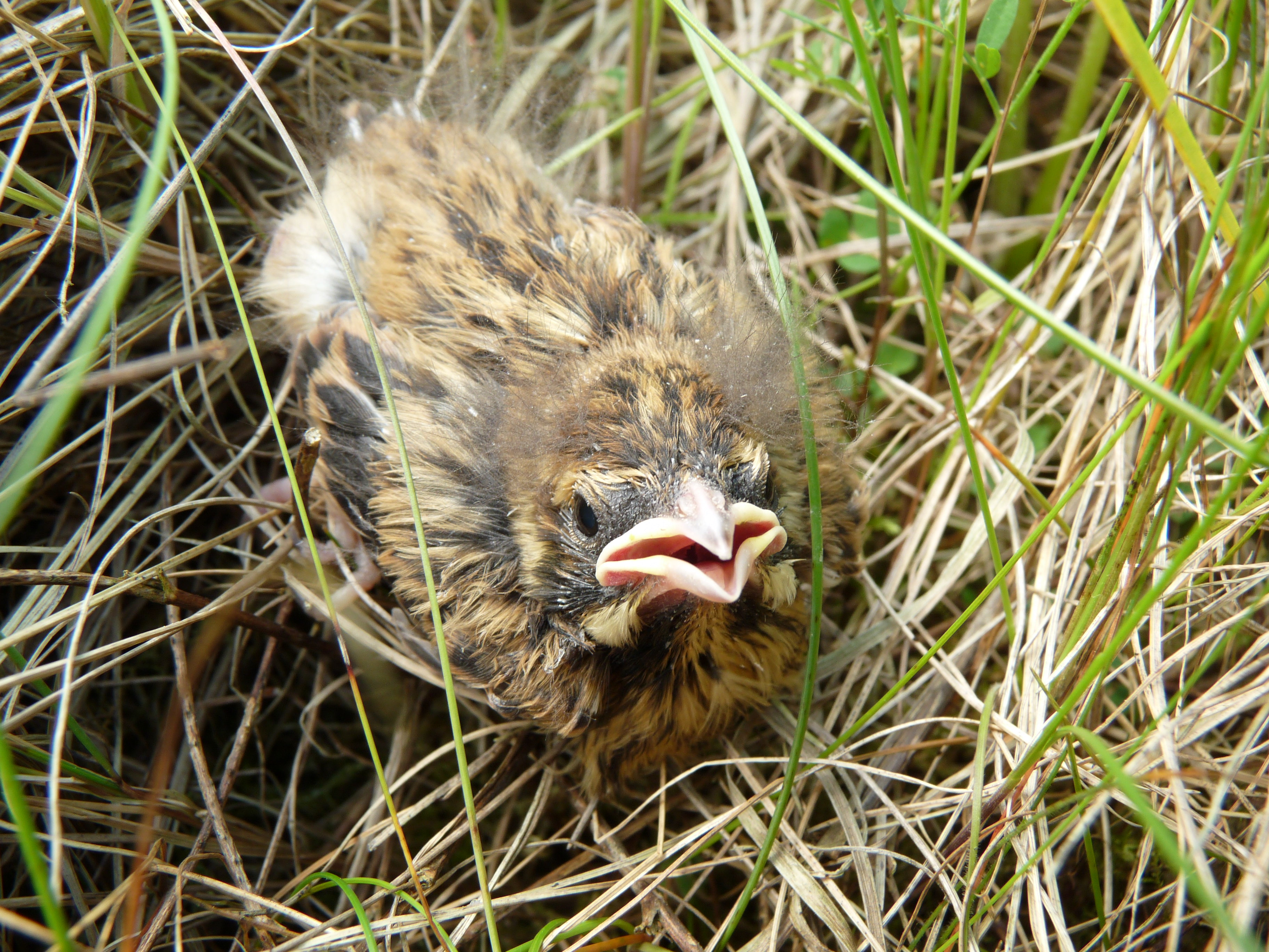 Latin name Emberiza schoeniclus Family Buntings (Emberizidae) Overview Sparrow-sized but slim and with a long, deeply notched tail, the male has a... Where to see them ... When to see them All year round. What they eat Seeds and insects